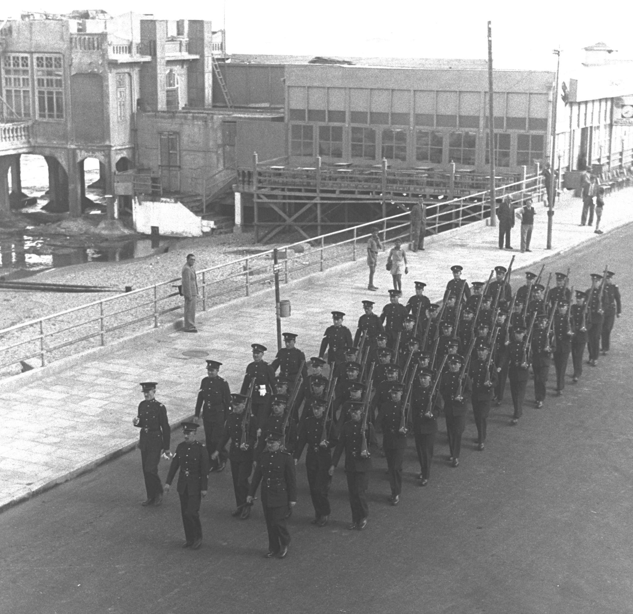 MEMBERS OF THE BRITISH POLICE MARCHING ALONG THE PROMENADE IN TEL AVIV.